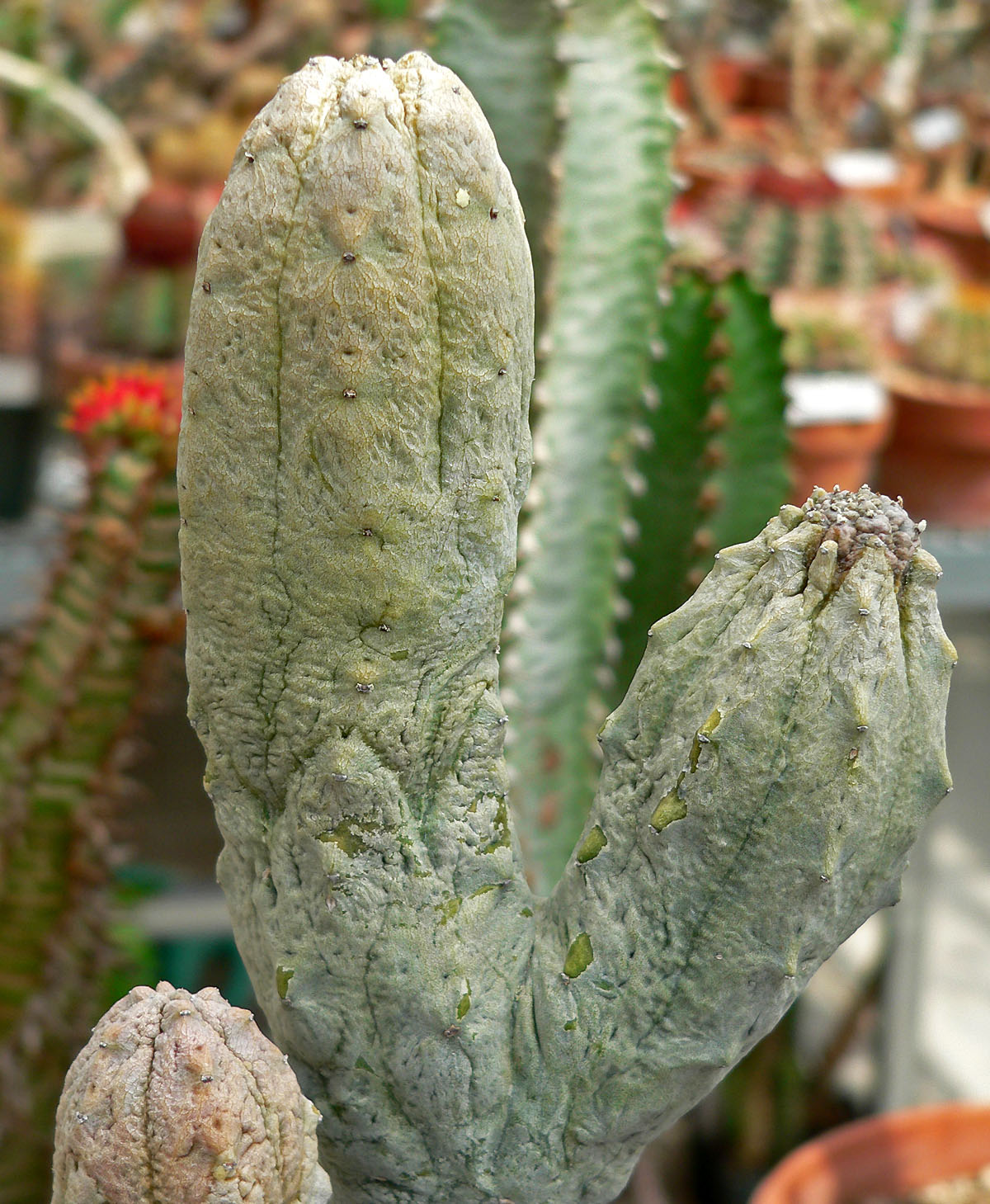 Euphorbia abdelkuri at the University of California Botanical Garden, Berkeley, California